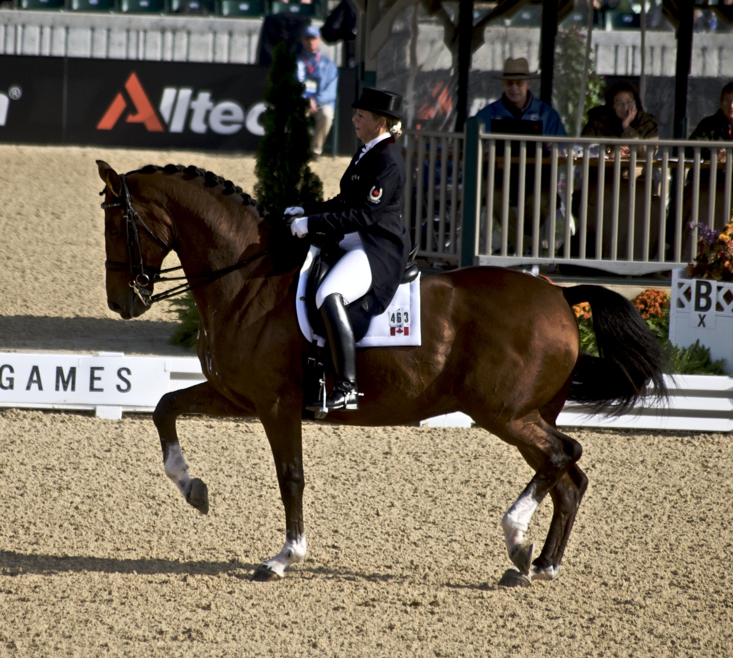 Bonny Bonello and Pikardi for Canada. Dressage Qualifying WEG 2010